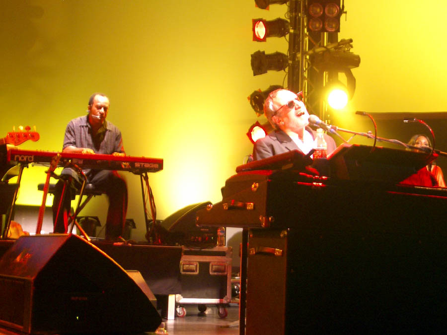 Steely Dan in concert in Lucerne, Switzerland, 2007.